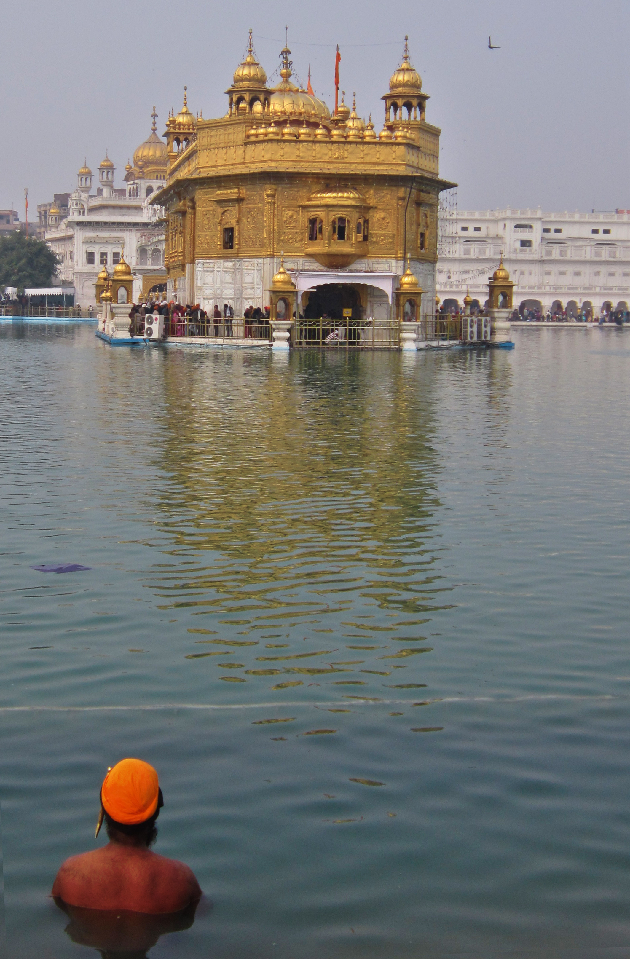 A baptized Sikh at Harmandir Sahib (informally the Golden Temple)